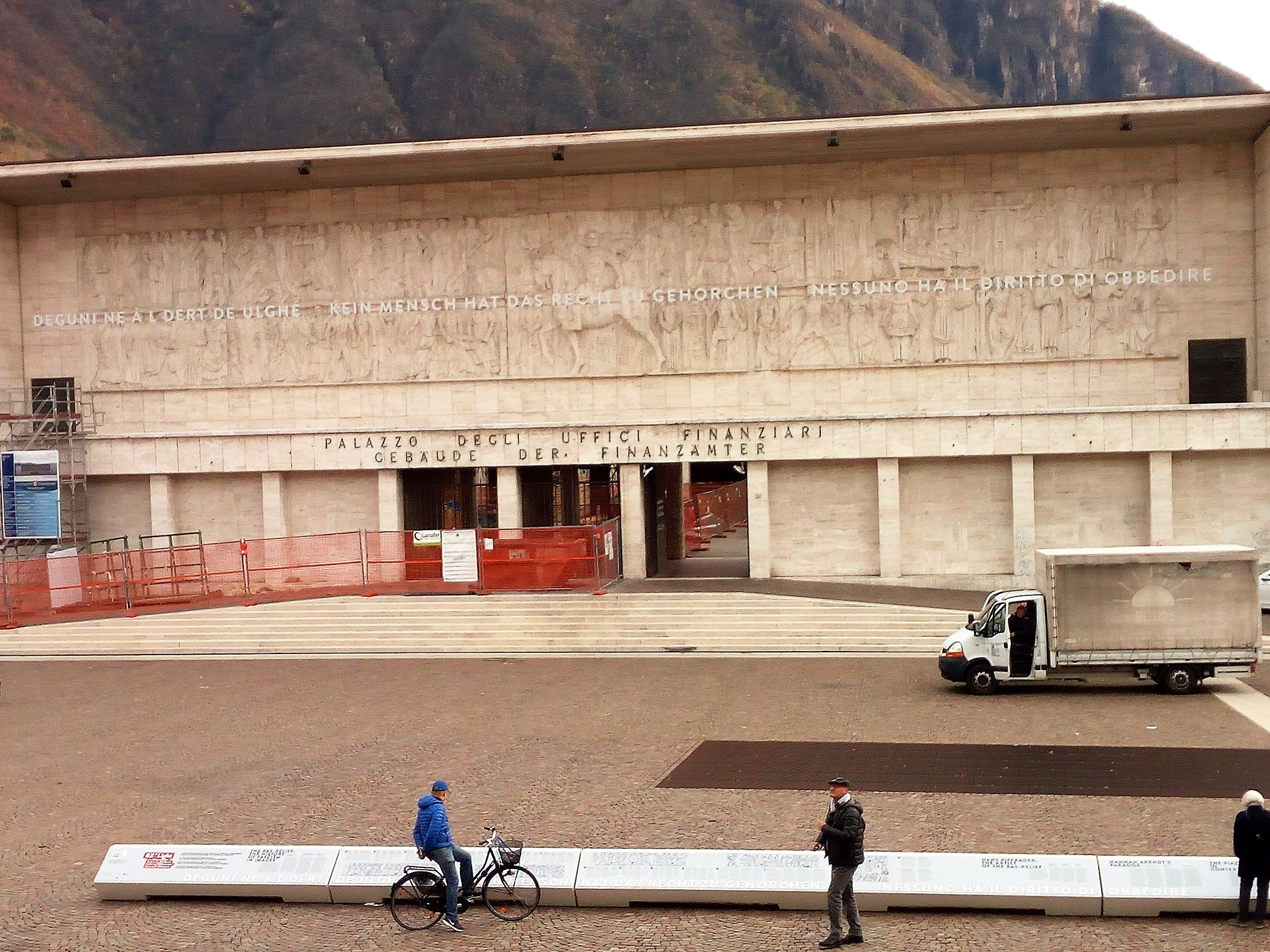 Das Piffraderrelief im November 2017